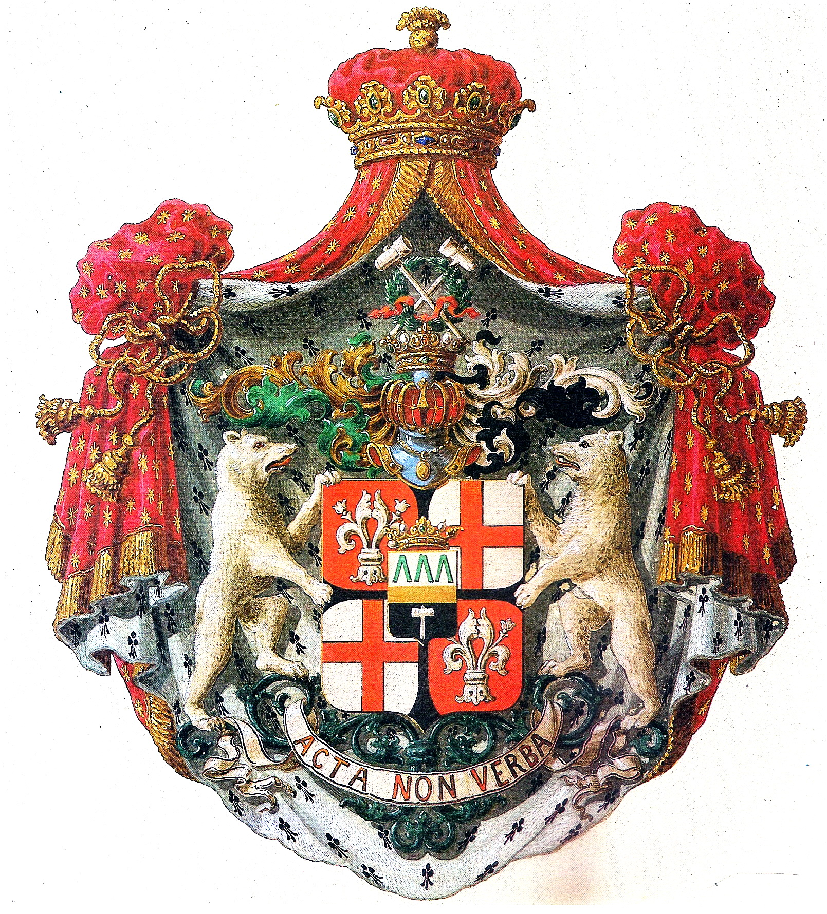 the coat of arms of Pavlo Demidov San-Donato, kyivan mayor in 1871-1874